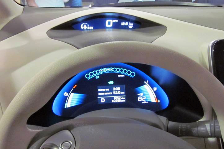 Dashboard of the Nissan Leaf.